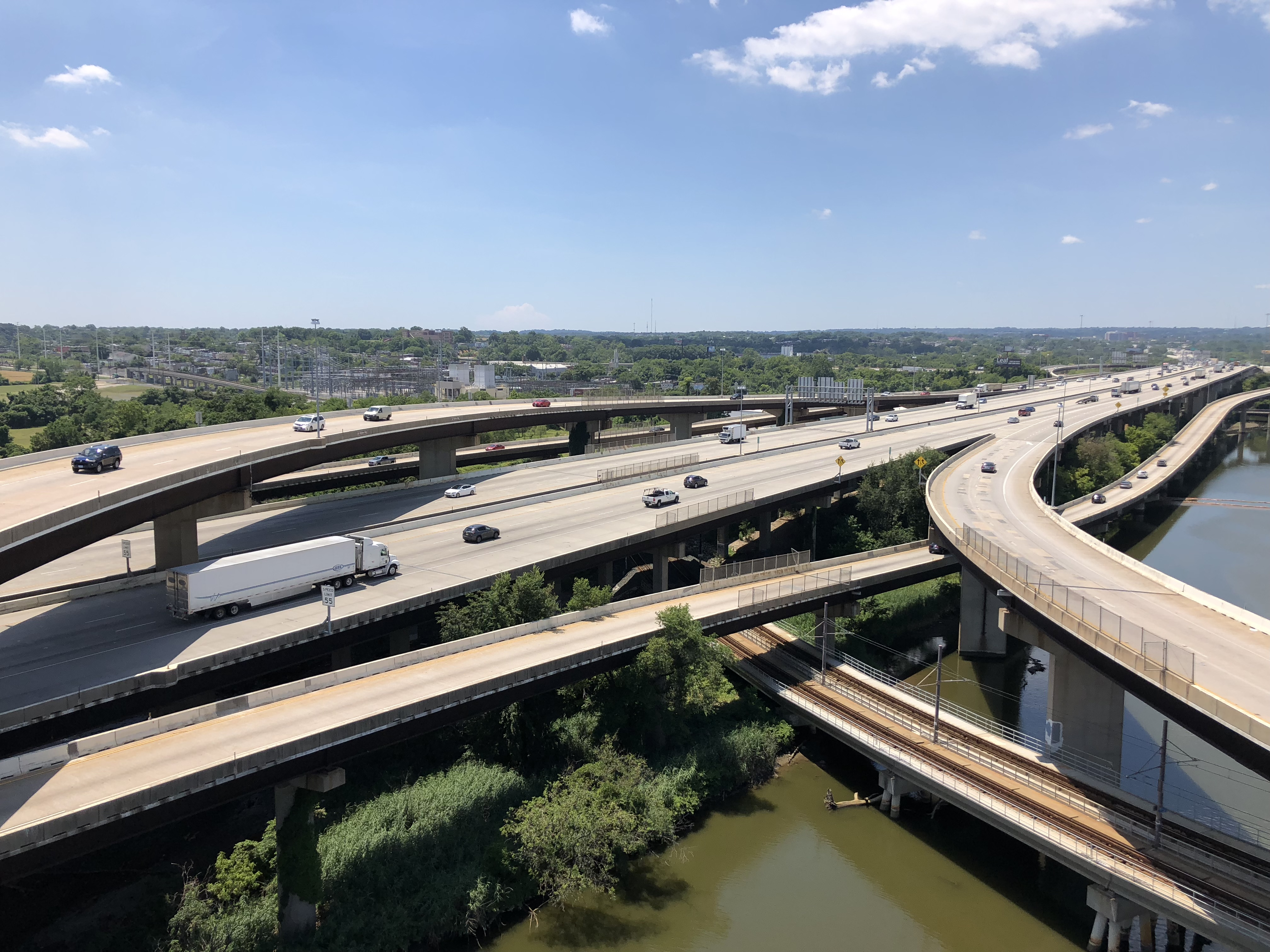 View south along Interstate 395 (Cal Ripken Way) at its junction with Interstate 95 from the overpass for the ramp from Interstate 395 southbound to Interstate 95 northbound in Baltimore City, Maryland